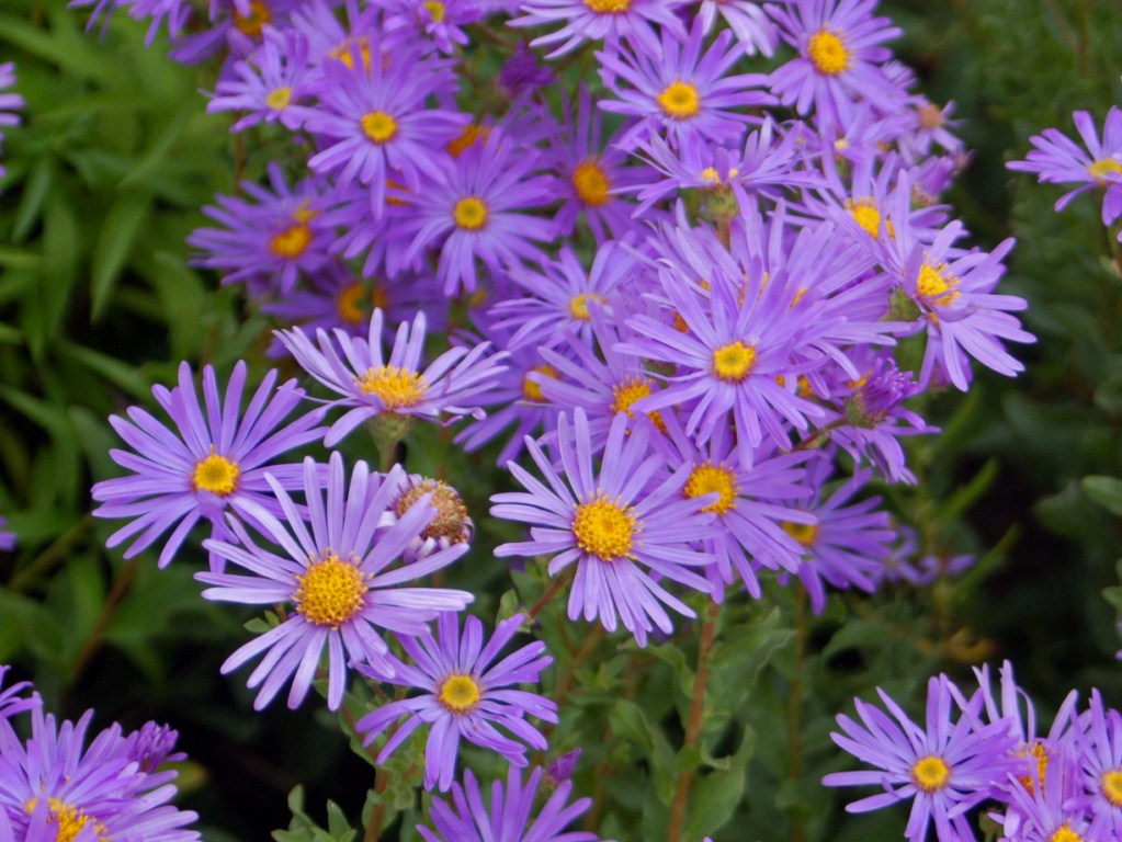 Aster amellus - (Botanika Zahrada Fata Morgana Praha)